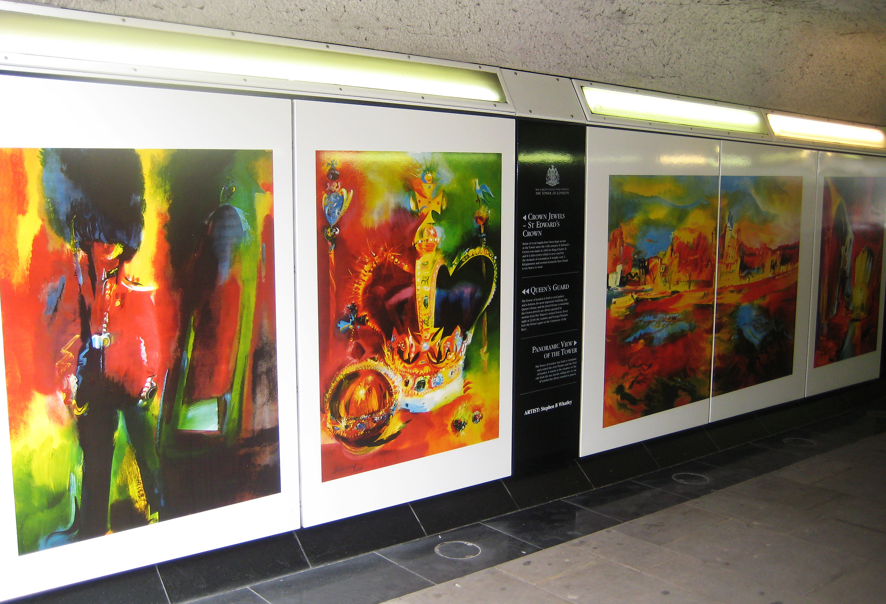 Stephen B. Whatley's commissioned paintings for the Tower of London Tube Station